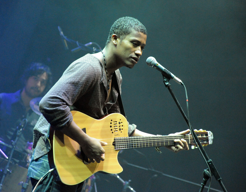 Tcheka - singer from Cape Verde, performing in Warszawa, Poland during the 5th Cross Culture Festival